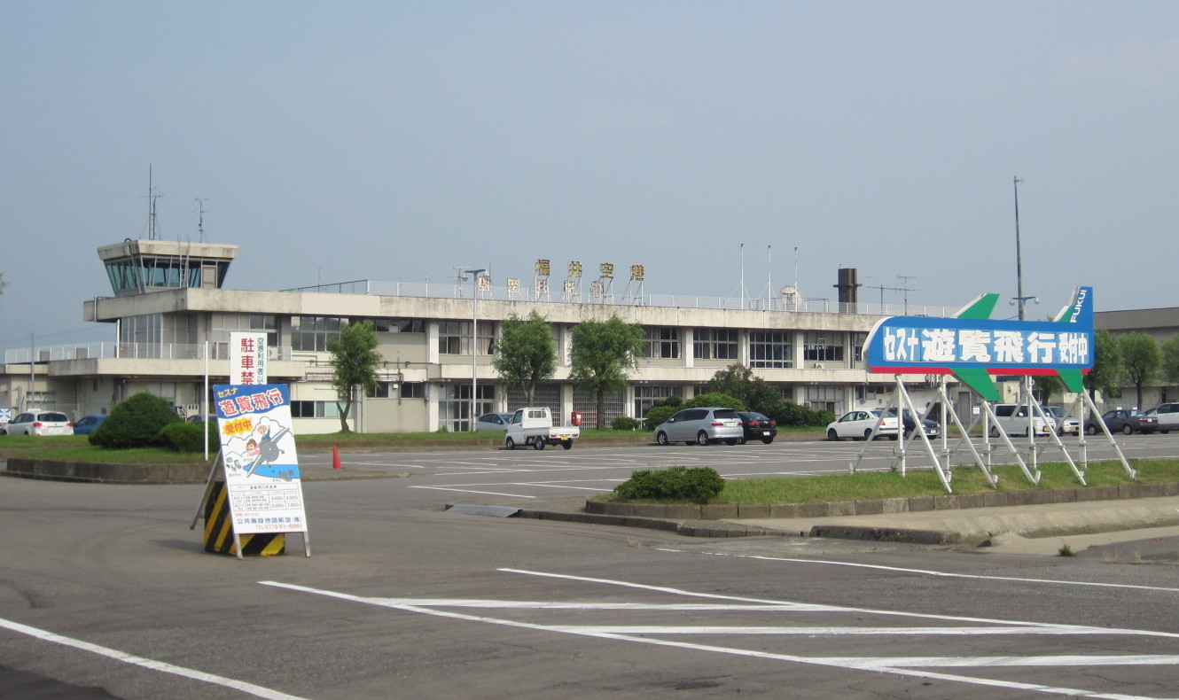 Fukui Airport(Sakai city, Fukui prefecture)